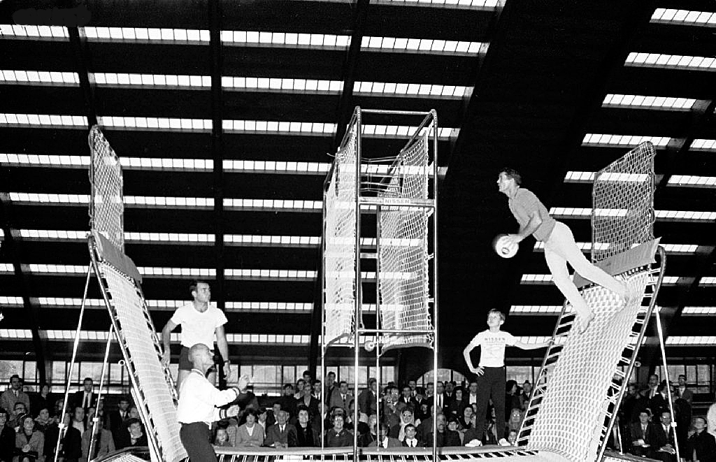 Spaceball being played at a demonstration in Paris on 30th October 1965[1] with George Nissen and an unknown player on the left and Tim Blake with Pat Winkle (about to shoot) on the right.